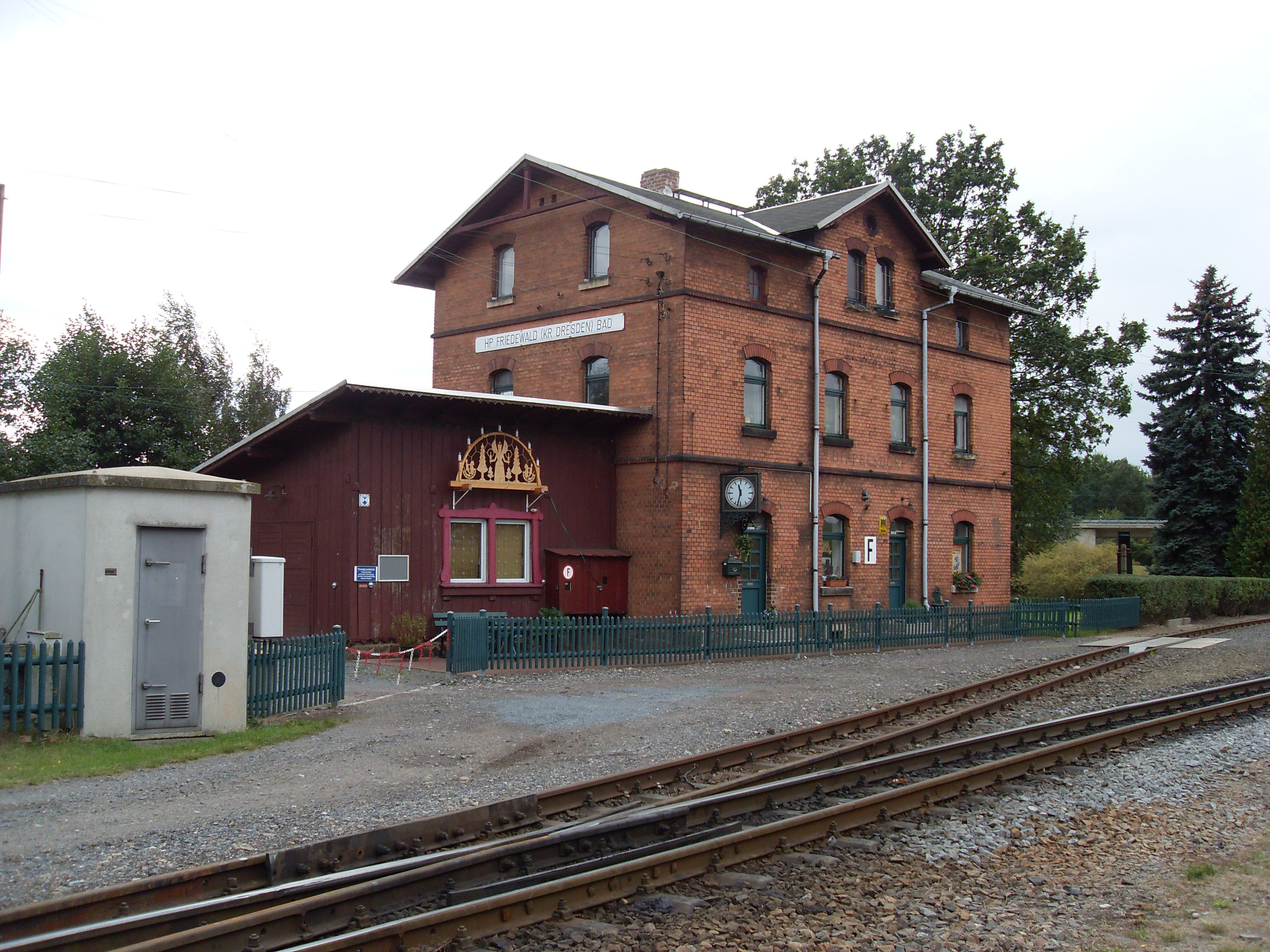 Station Friedewald Bad / Lößnitzgrundbahn